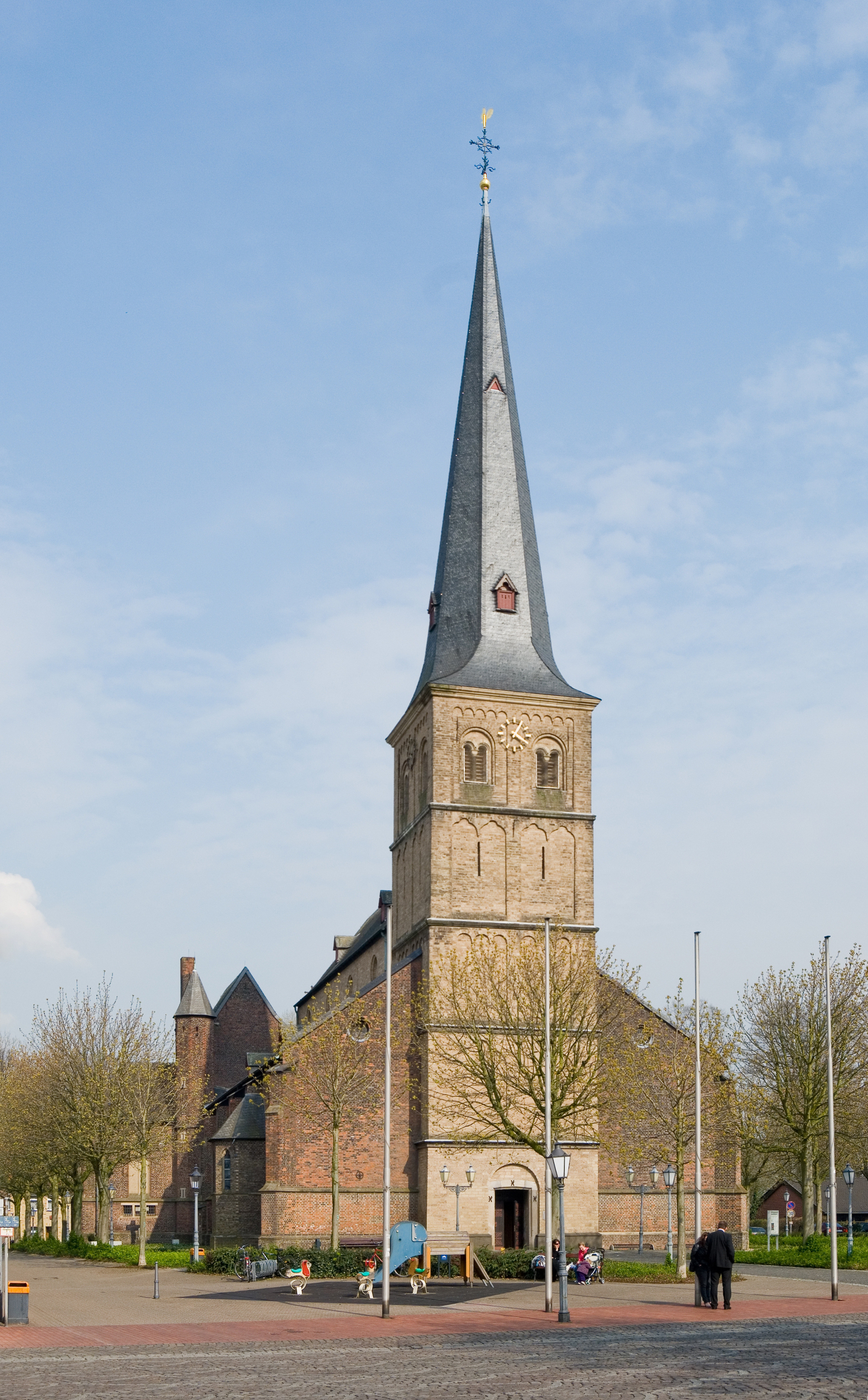 Rheinberg (North Rhine-Westphalia, Germany) – Catholic Saint Peter Church – view from west from the market square This image shows a heritage building in Germany, located in the North Rhine-Westphalian city Rheinberg (no. 79). This photograph was taken with a Nikon D3000